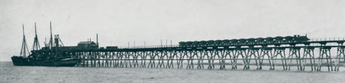 Photograph of South Bulli Jetty at Port Bellambi c 1909. From book 'The Mines of the Bellambi Coal Company Limited', published in 1909.